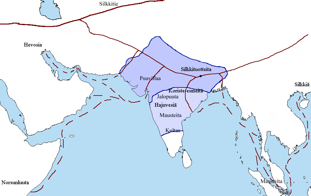 Main trade routes of the Guptaempire in 4th century AC. Text in finnish.